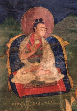 Namcho Mingyur Dorje, b.1645 - d.1667, Nyingma terton